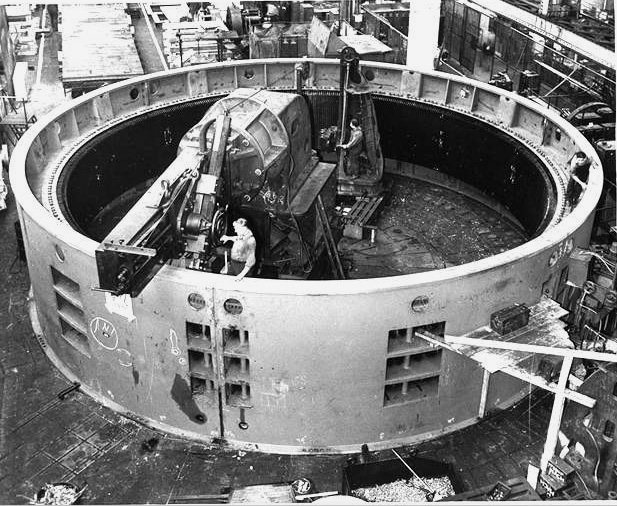 Hydro-electric Generator for Russia's Dnieprostroi Dam made by General Electric